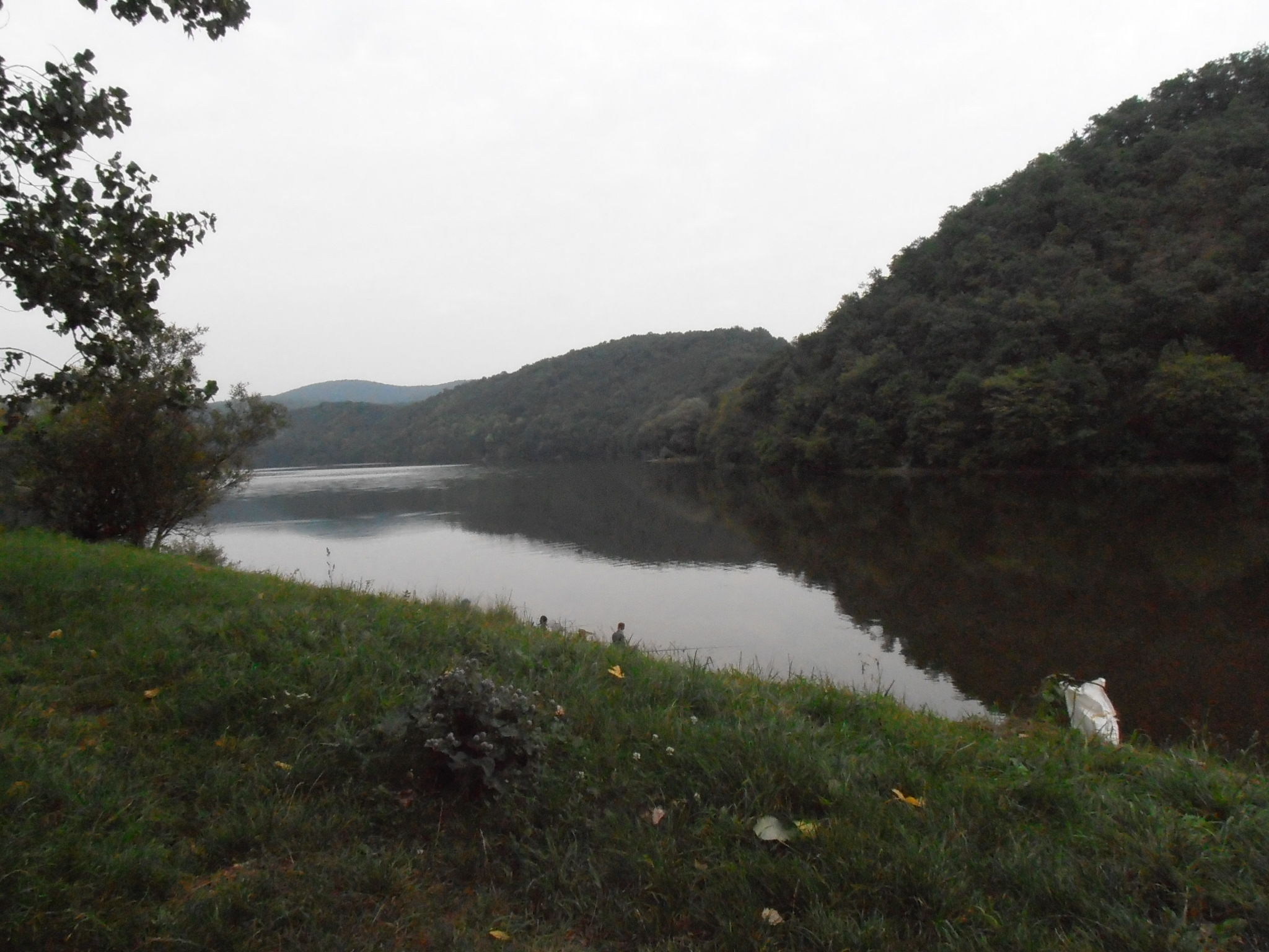 Lázbérc Reservoir in Hungary A Lázbérci-víztározó a Bükkben